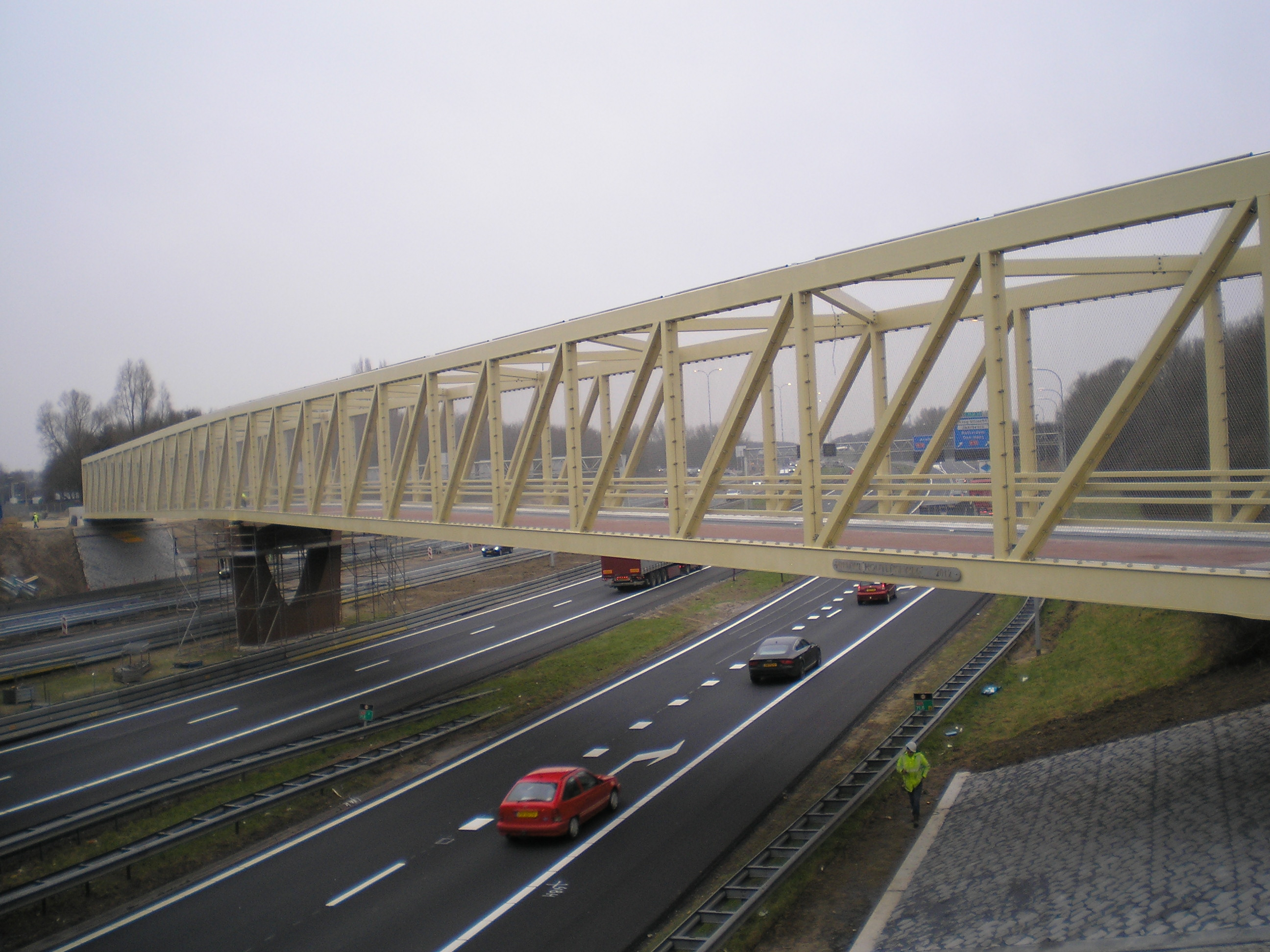 Viaduct Nieuwe Houtenseweg in Utrecht in the Netherlands